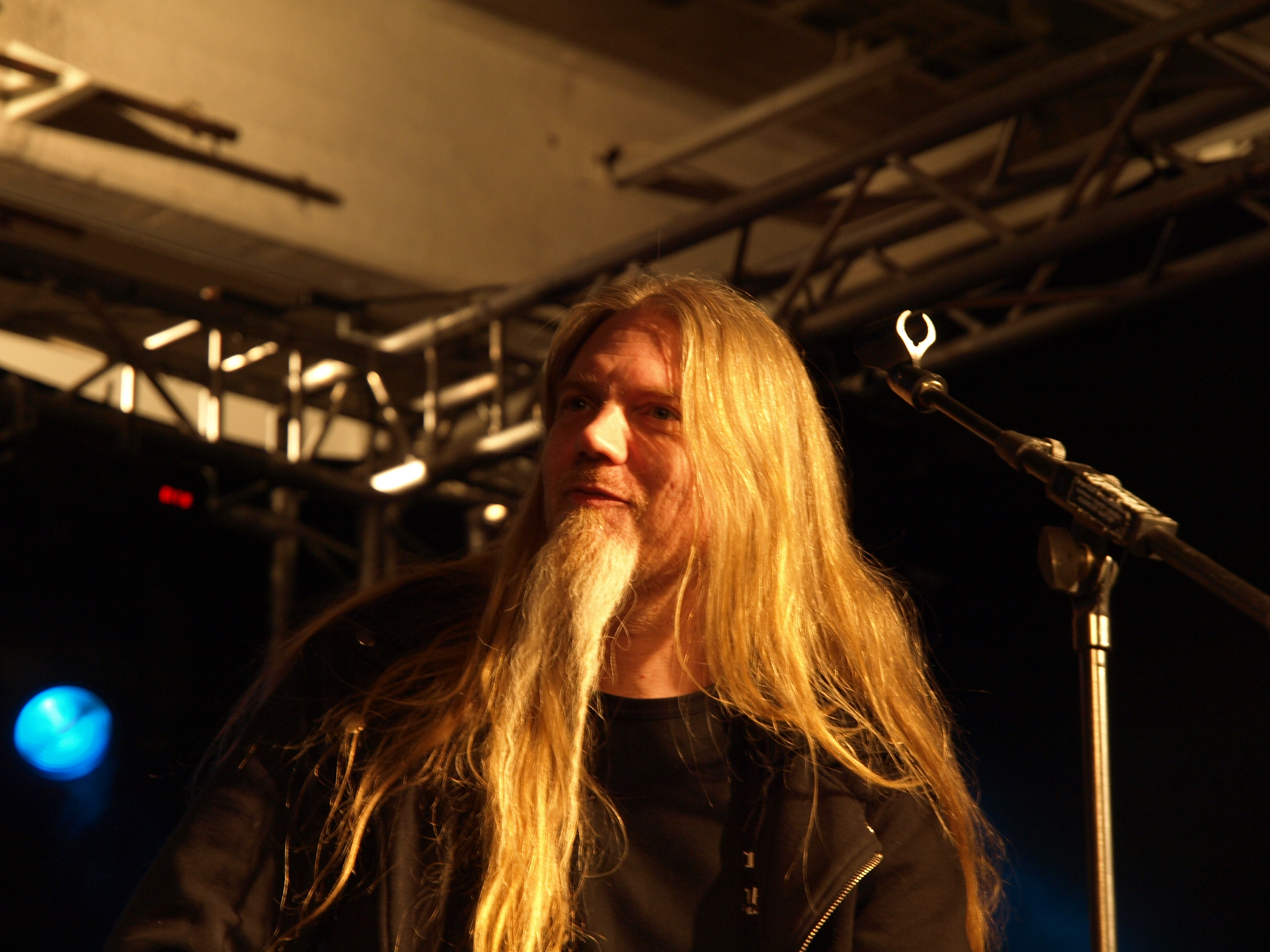 Marco Hietala during an interview at Helsinki Metal Meeting 2010